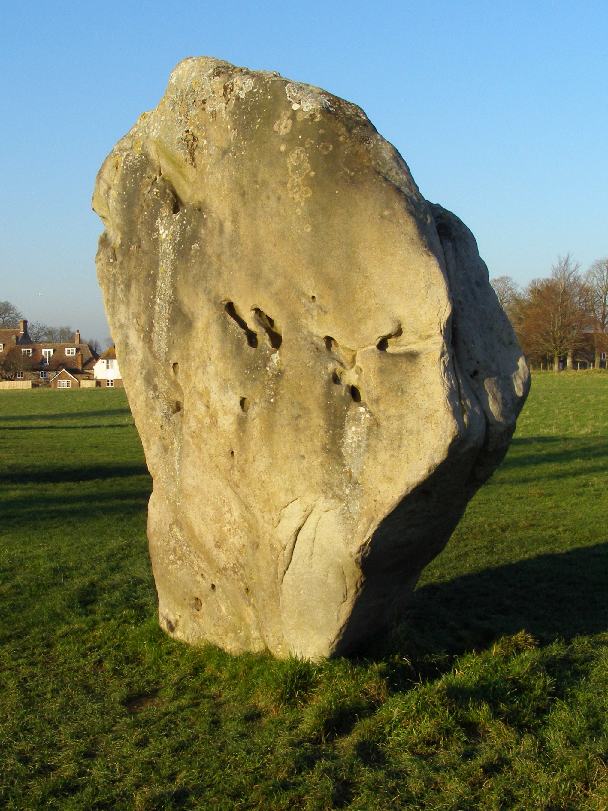 Stone 9 of the south-west quadrant of Avebury henge's Great Circle, also known as the Barber Stone or the Barber-Surgeon Stone.